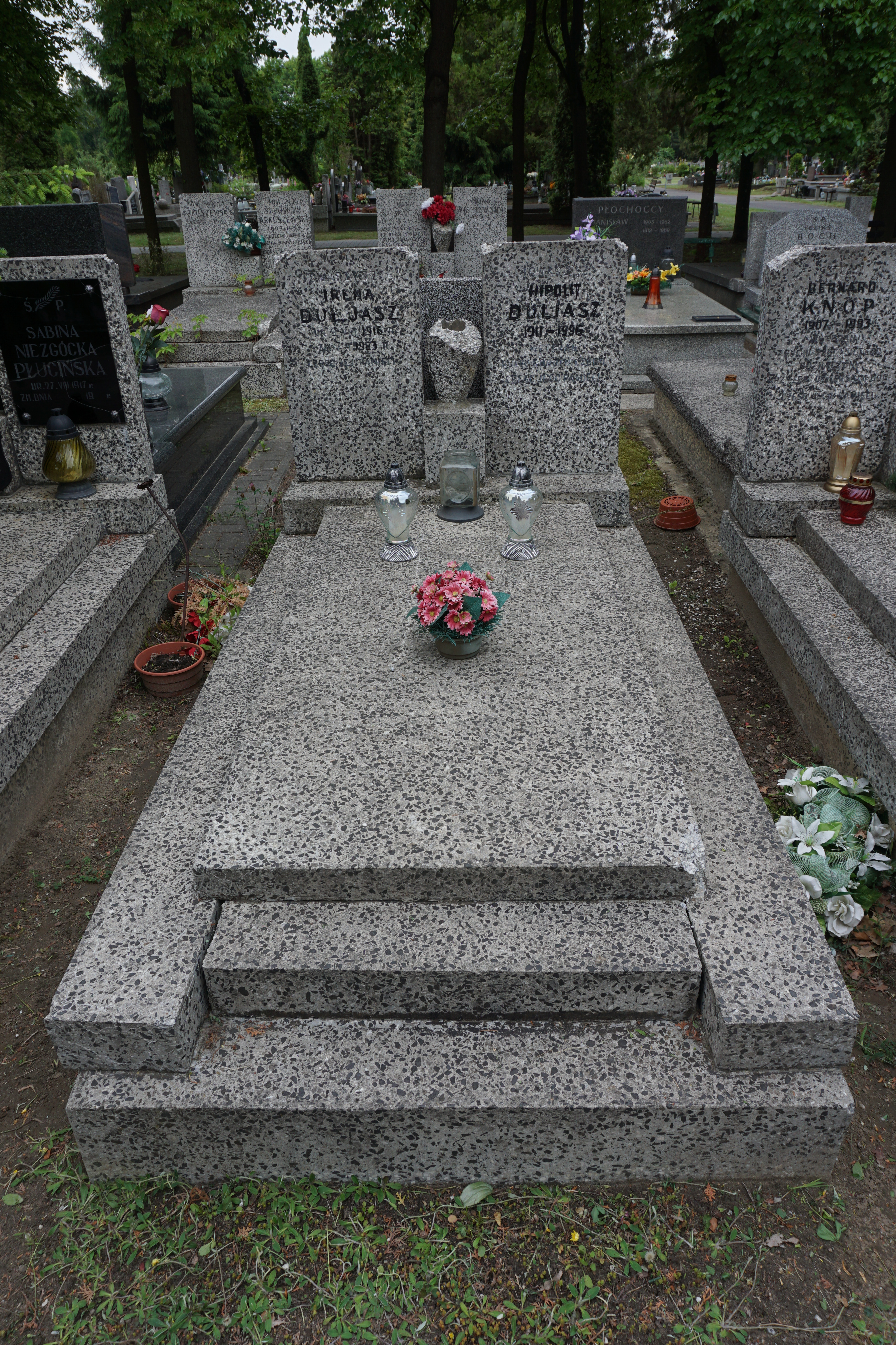 The grave of Hipolit Duljasz at the North Municipal Cemetery in Warsaw (section E-VII-2, row 1, grave 18)